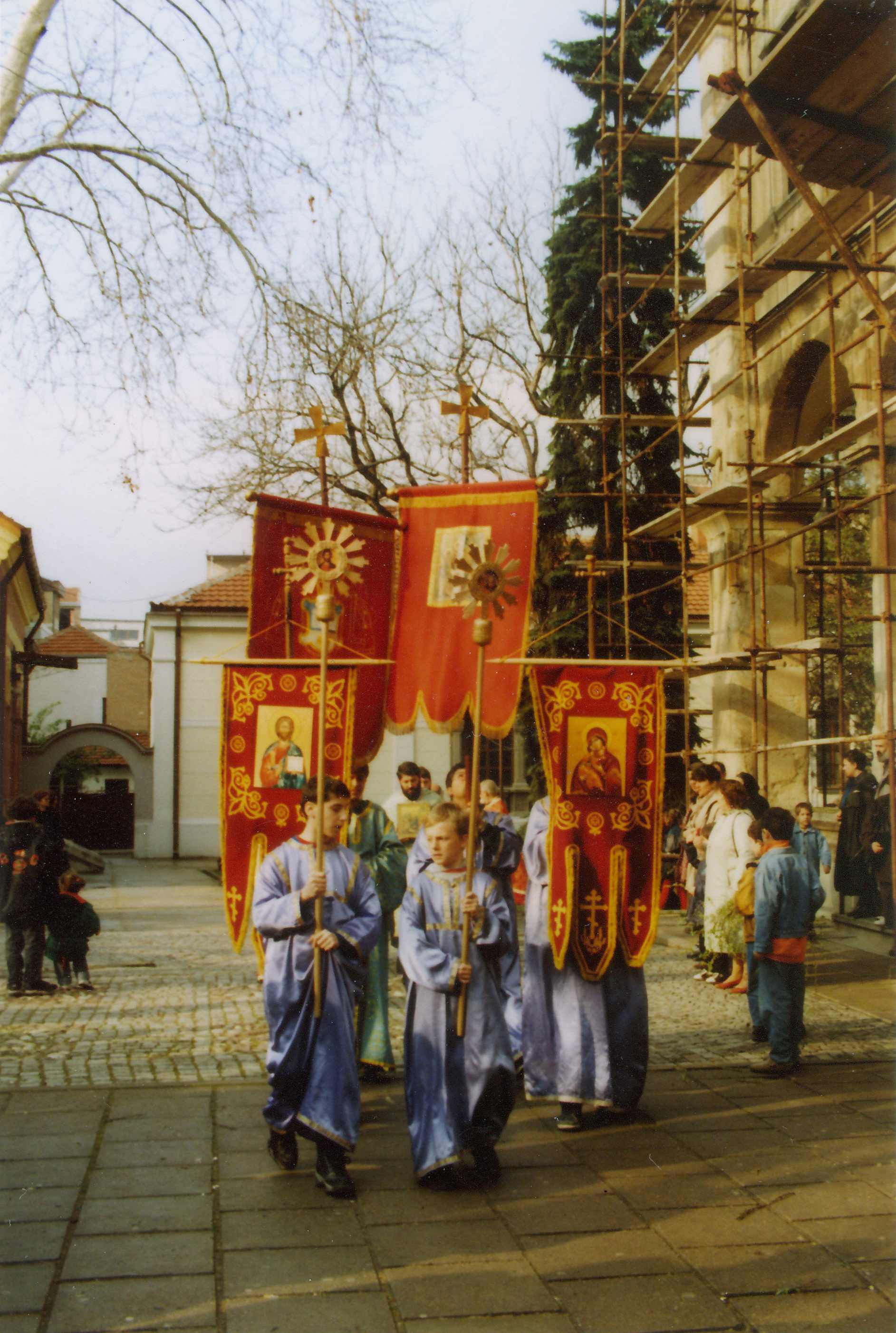 Liturgy during the reconstruction of the Holy Trinity Cathedral in Niš (Serbia) 2006.